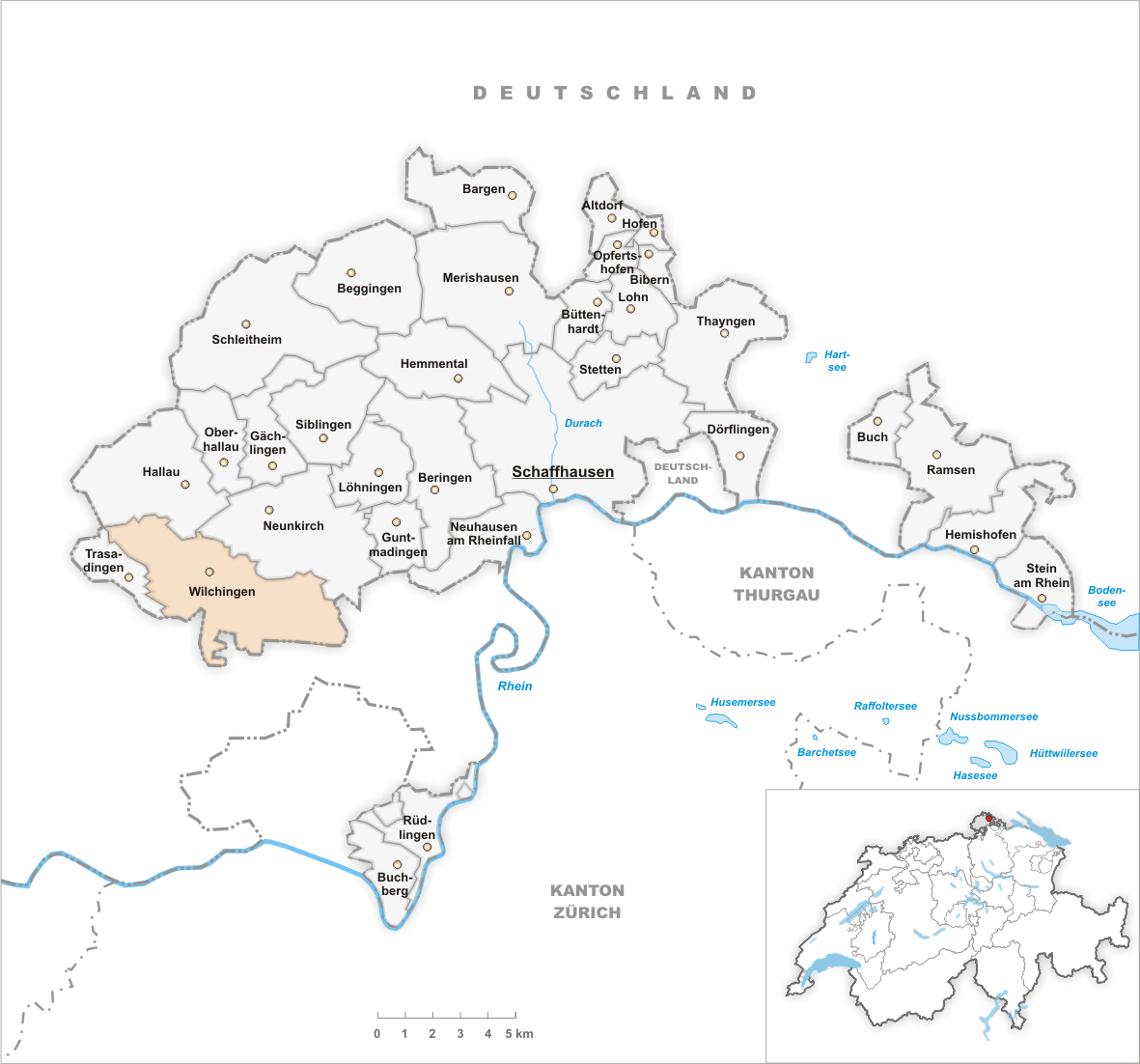 Municipality Wilchingen